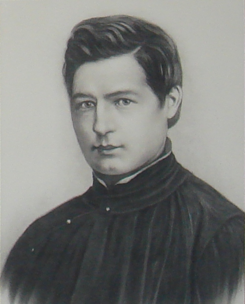 Theophane_Venard